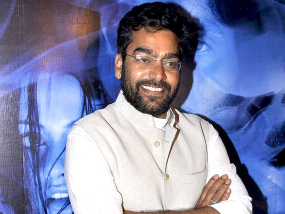 Ashutosh Rana at the audio release of A Strange Love Story